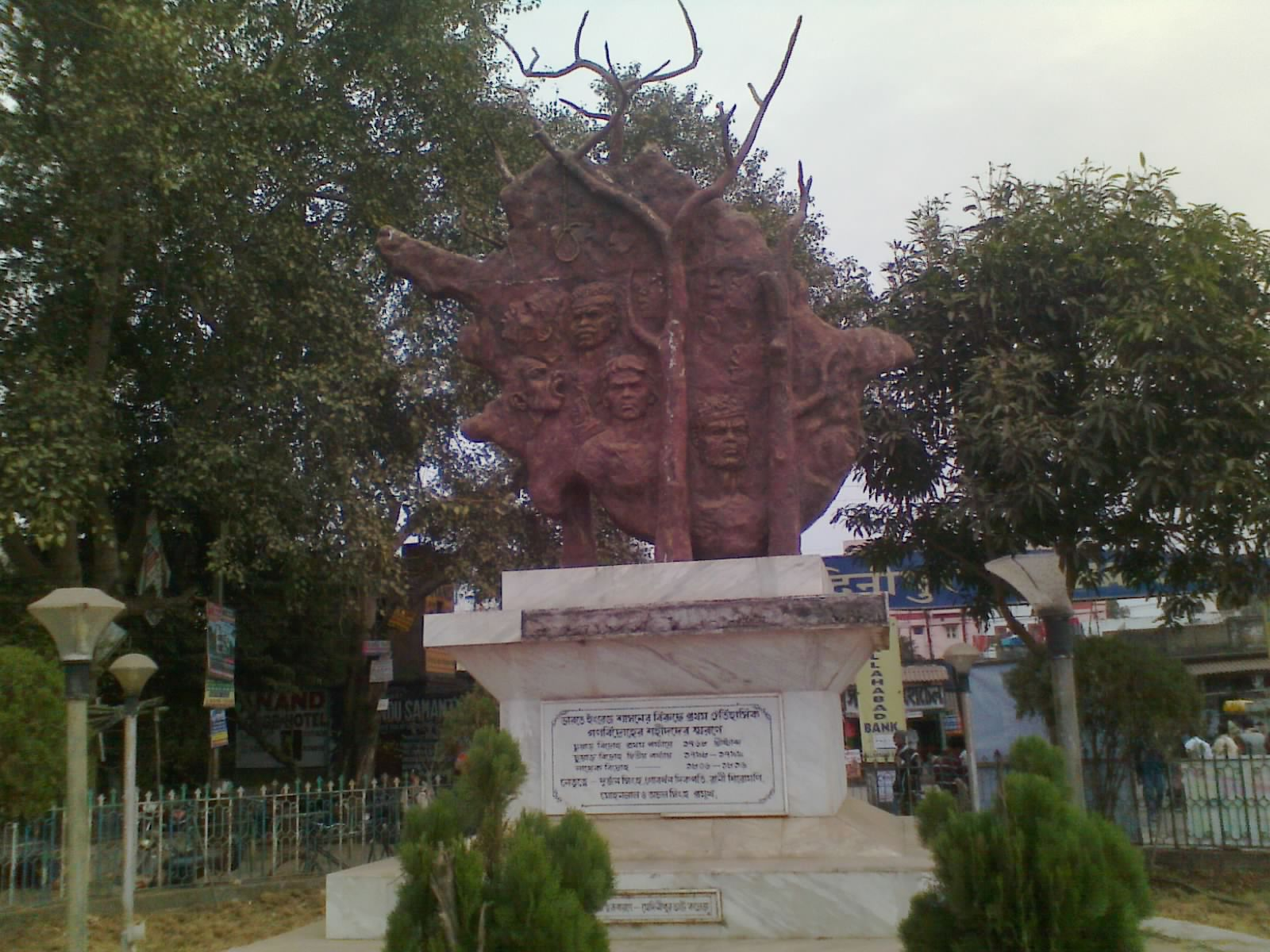 Memoirs of Medinipur Peasant revolt, near Medinipir Railway station